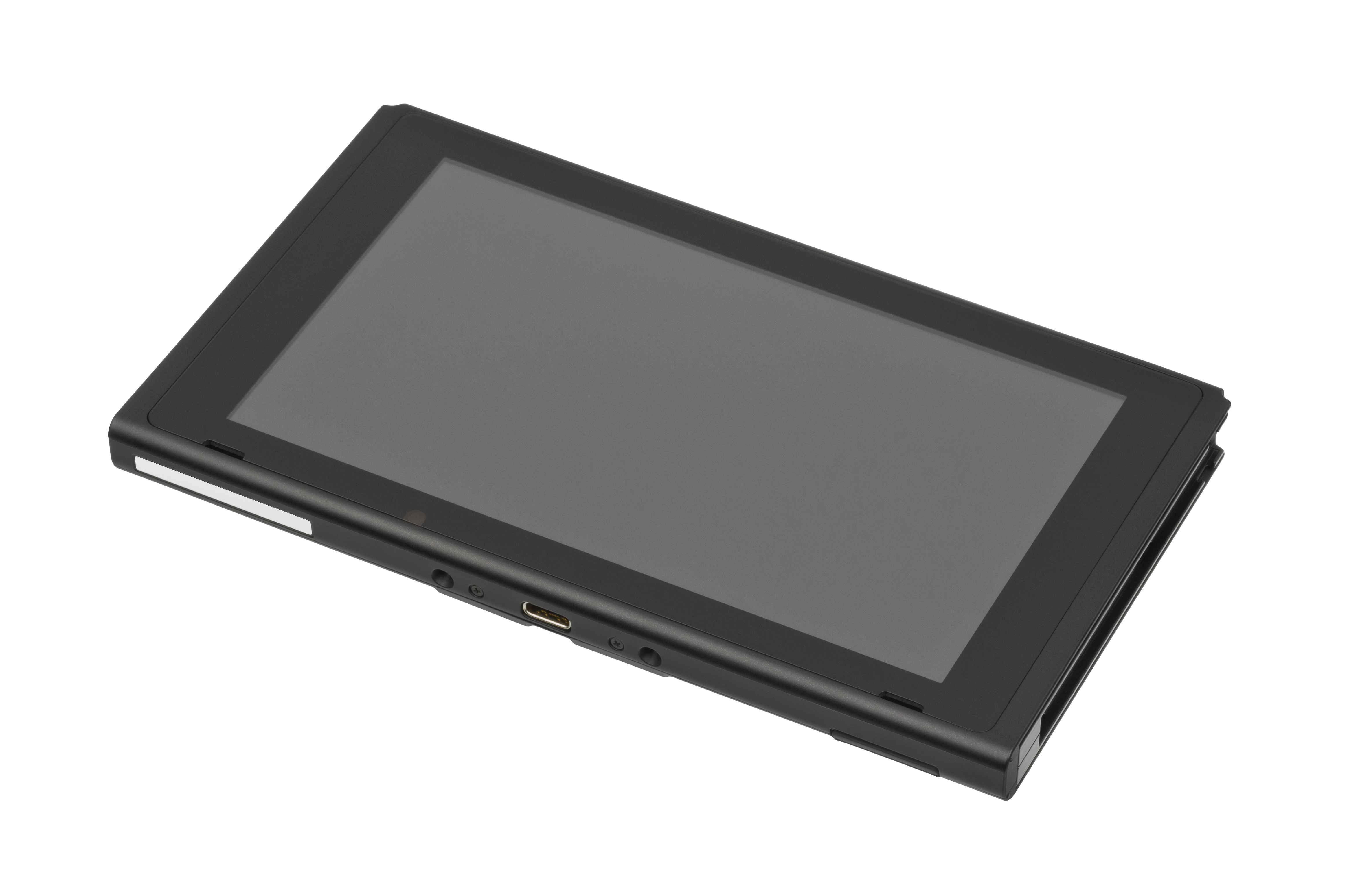 The Nintendo Switch, a hybrid portable/home console released by Nintendo in 2017. This picture shows the main console with the Joy-Con controller unattached.